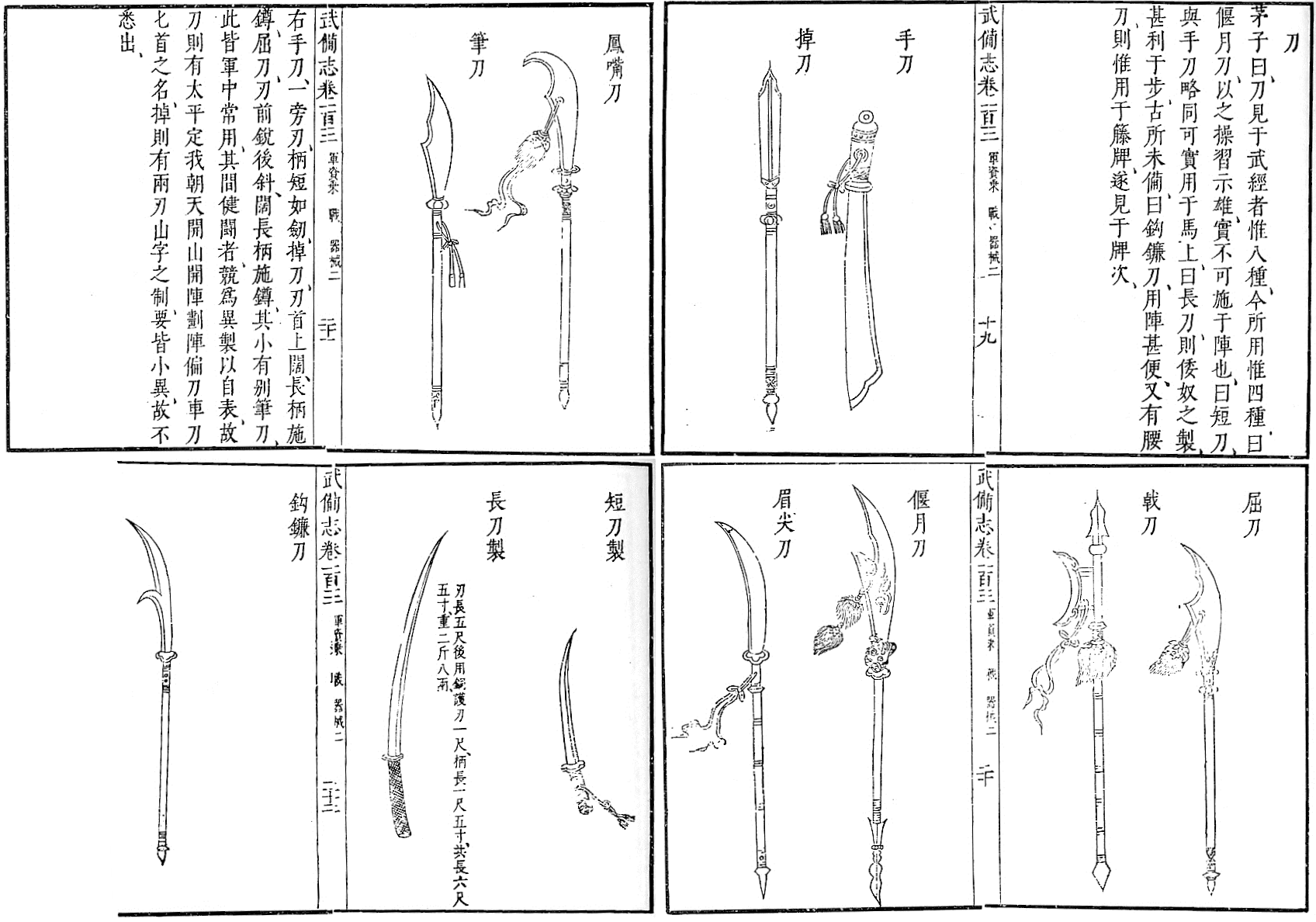 Swords and glaives popular from Song to Qing Dynasty.